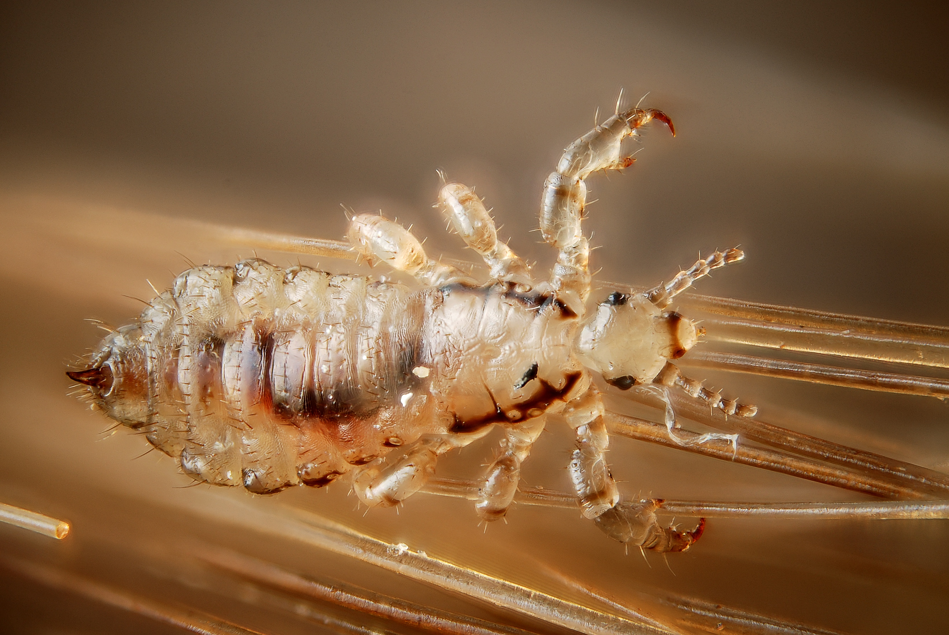 Male human head louse, Pediculus humanus capitis. Technical settings : - focus stack of 23 images - microscope objective (Nikon achromatic 10x 160/0.25) directly on the body (with adapter ~30 mm)